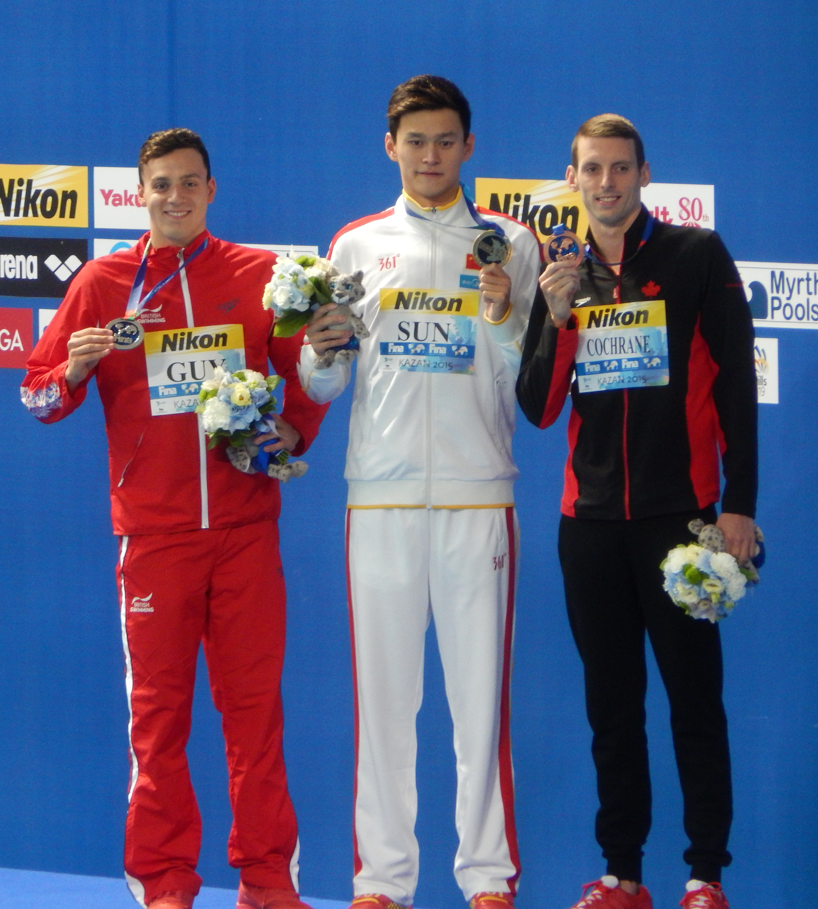 Medallists at the men's 400 metres freestyle in Kazan 2015